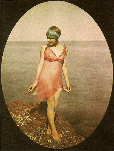 On the beach